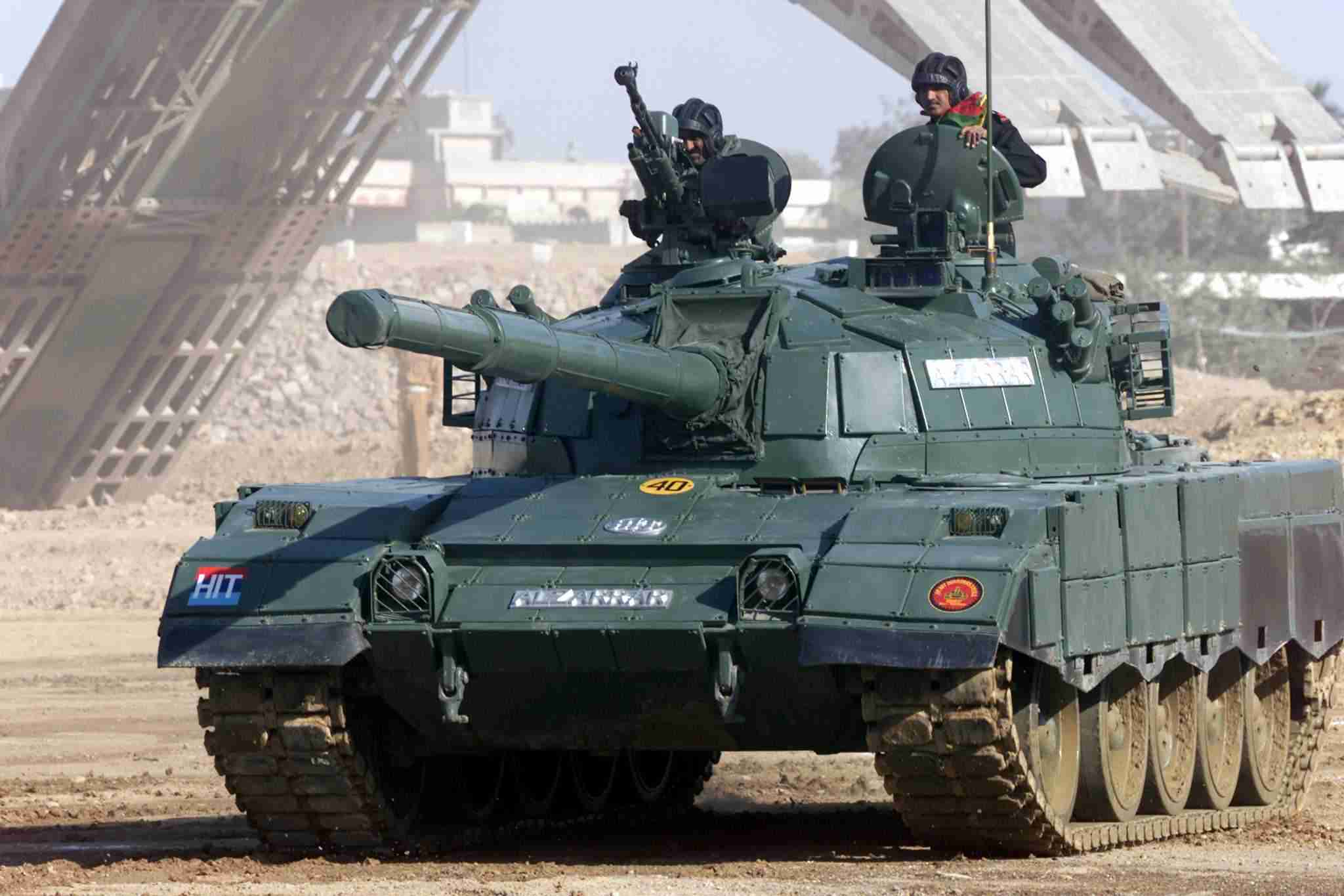 Al Zarar MBT during the IDEAS 2006 Defence Exhibition held in Karachi, Pakistan.